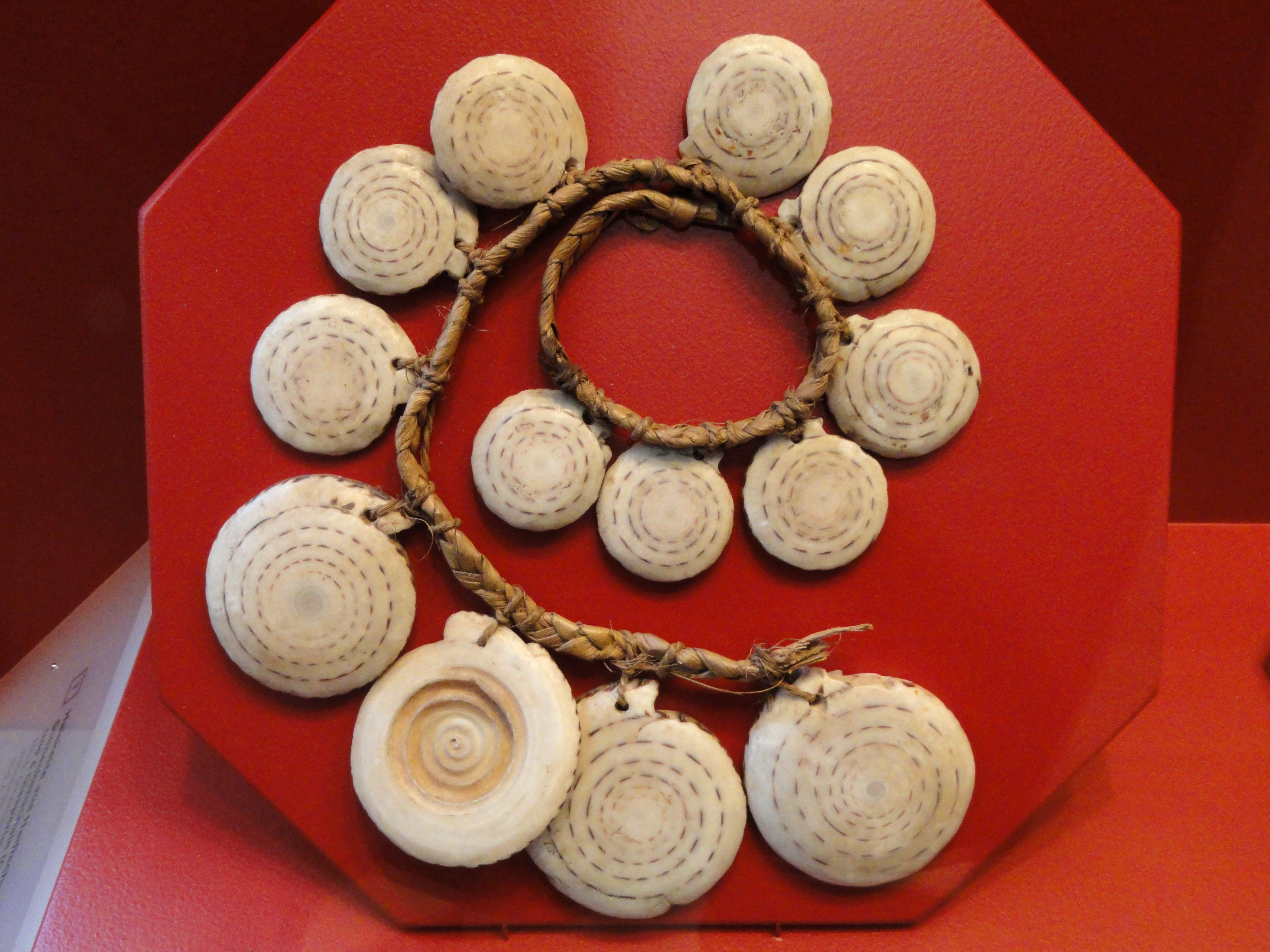 Exhibit in the Oceanic collection of the Staatlichen Museums für Völkerkunde München, Maximilianstraße 42, Munich, Germany. Dance ornament of conus shell and pandanus leaf string, Kiribati, 1891.